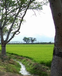 fields